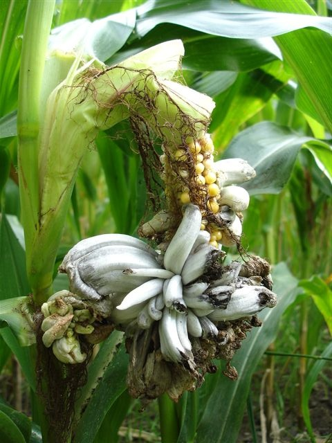 the maize disease corn smut. Picture taken on a maize field in Germany